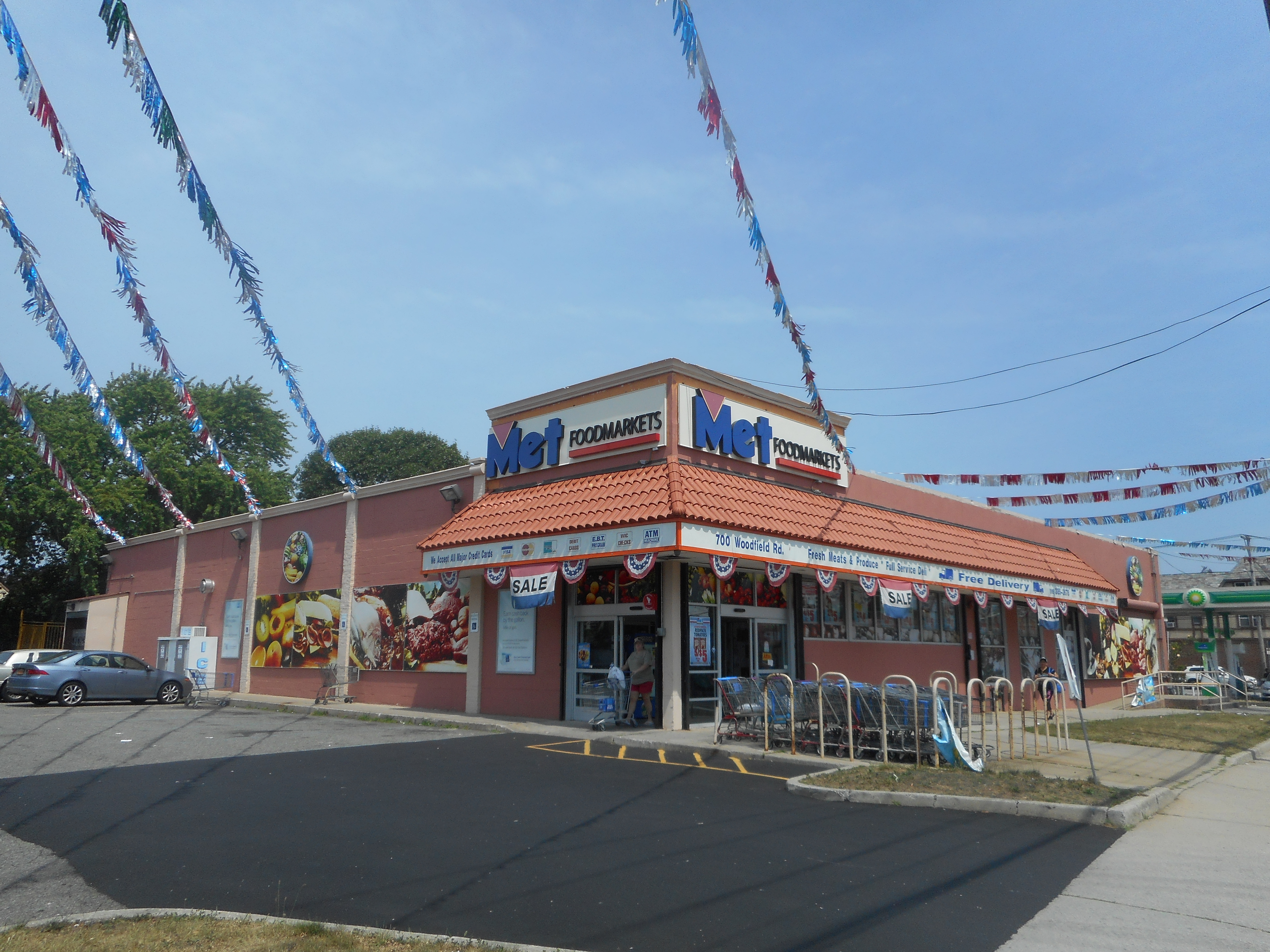 A Met Supermarket at the intersection of Woodfield Road and Donlon Place in Lakeview, New York, across from the LIRR station.